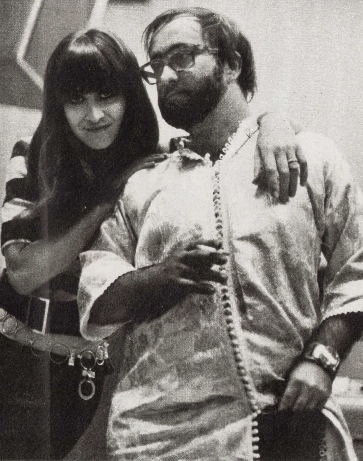 Fabienne Shine and Lucio Dalla, 1967.